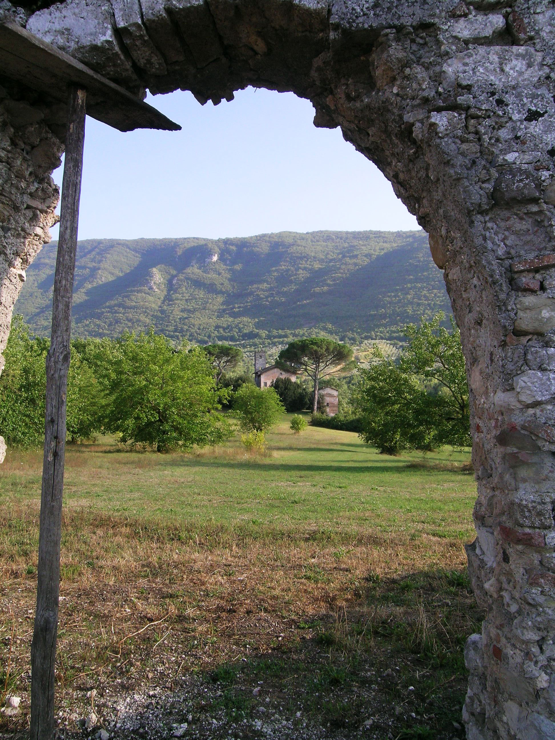 Photograph of Villamagna in 2005, before excavation began.